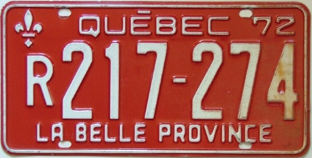 1972 Quebec license plate- example of a trailer ("R") plate